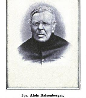 Photographic portrait of Joseph Alois Daisenberger